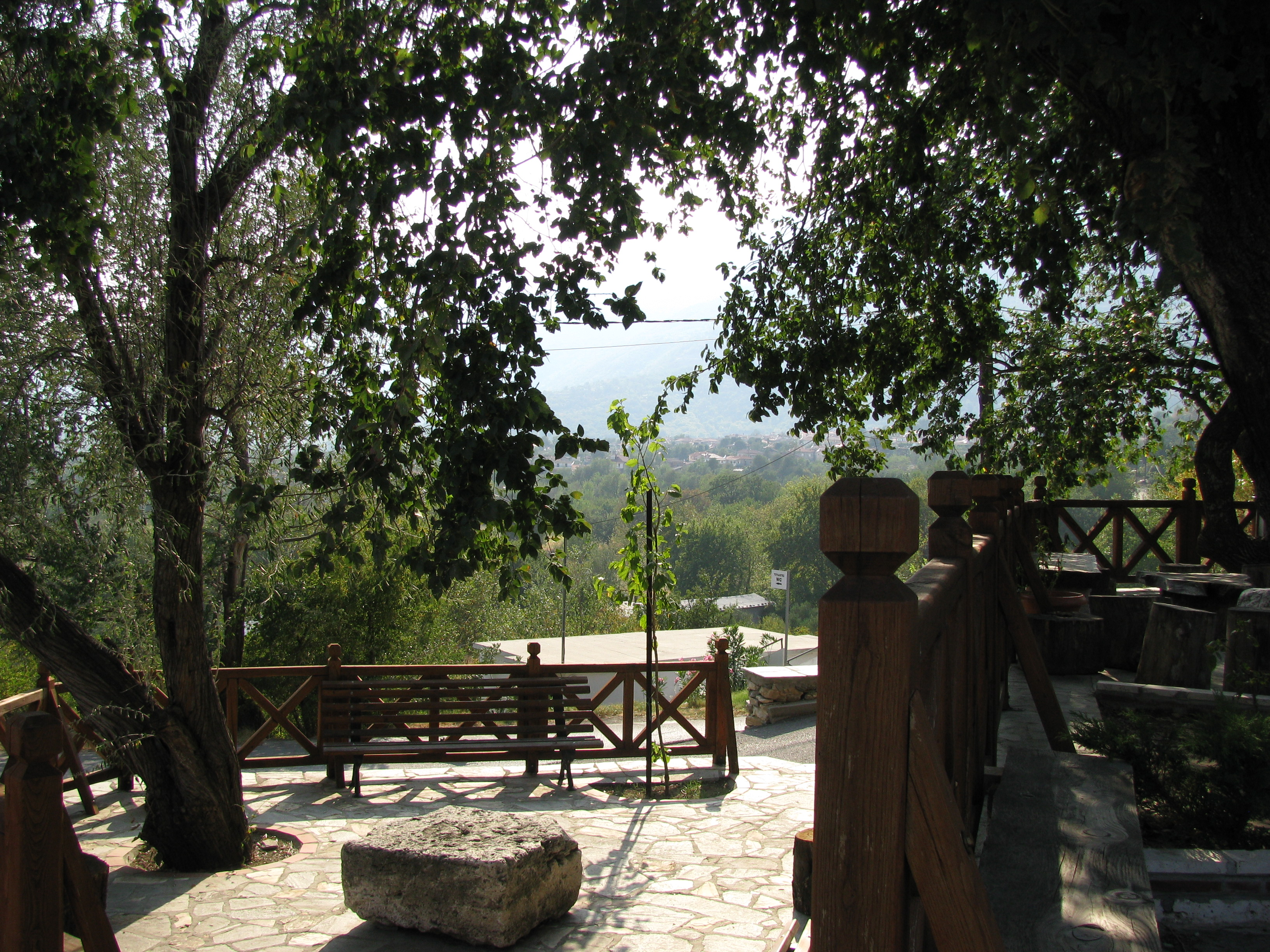 Monastery of "st.Ilarion of Muglen", near Bahovo, Aegean Macedonia